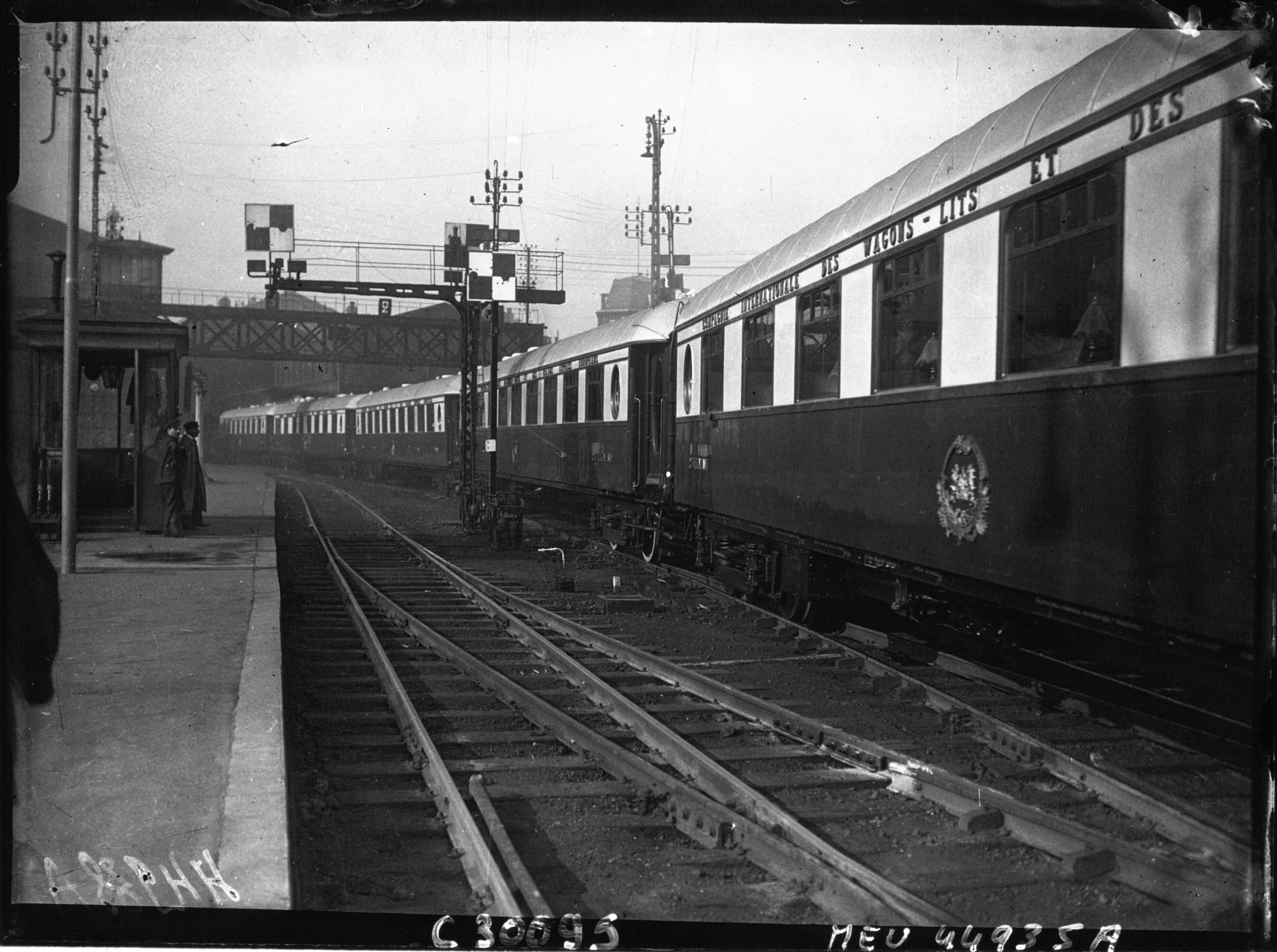 Cars of the train "la Flèche d'Or" at the station of Paris-Nord, 1927. This train linked Paris to London, crossing the Channel by ferry. In the Gallica reference, the name of the train is wrong (Etoile d'Or = Golden Star).